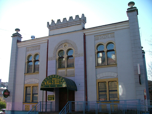 Mikvah in Tarnów